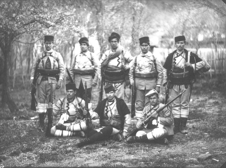 Cheta of bulgarian revolutionary Doncho Angelov from IMARO